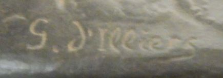 The signature of French animalier sculptor Gaston D'Illiers.